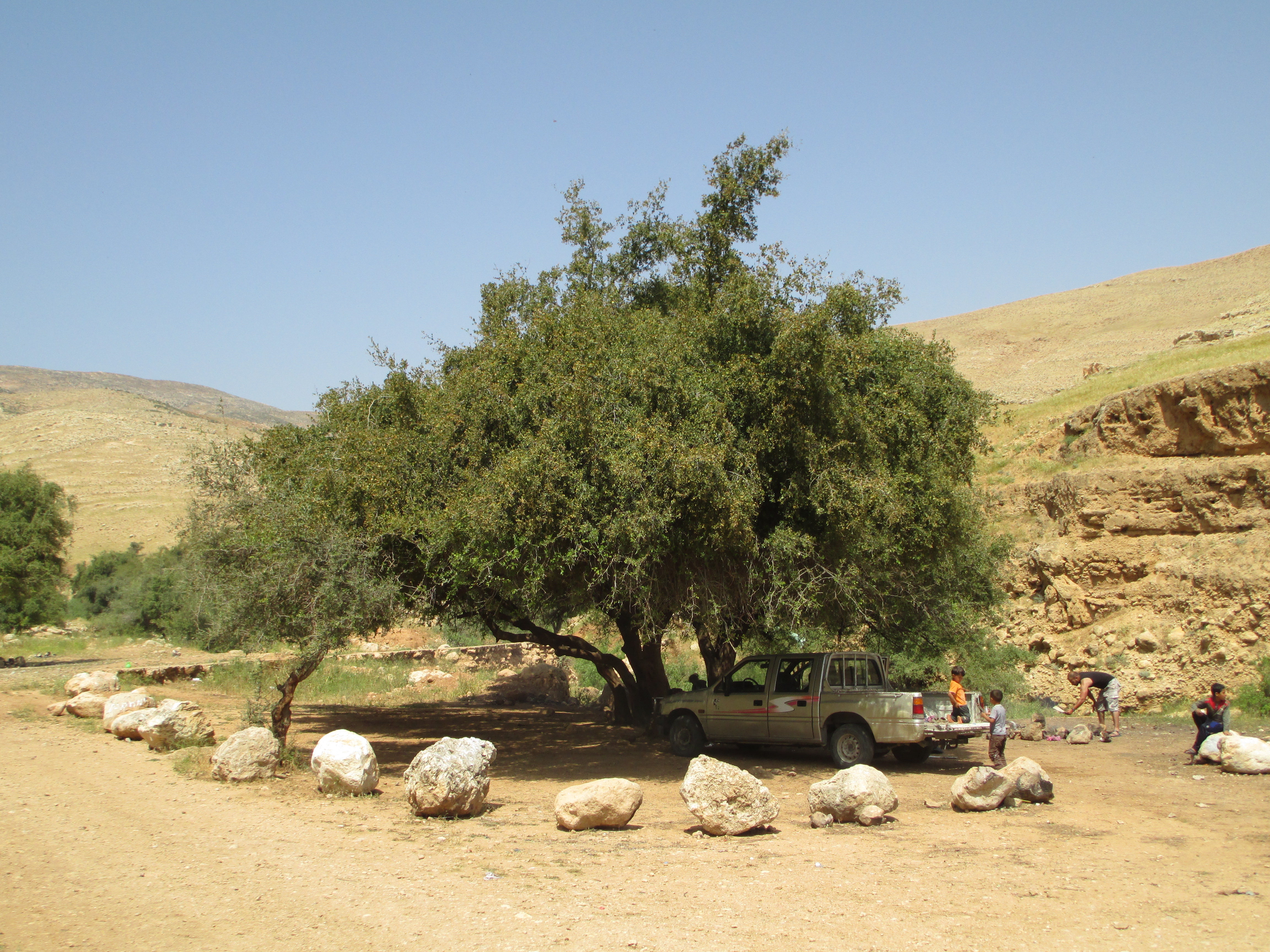 Jujube in Peza'el springs